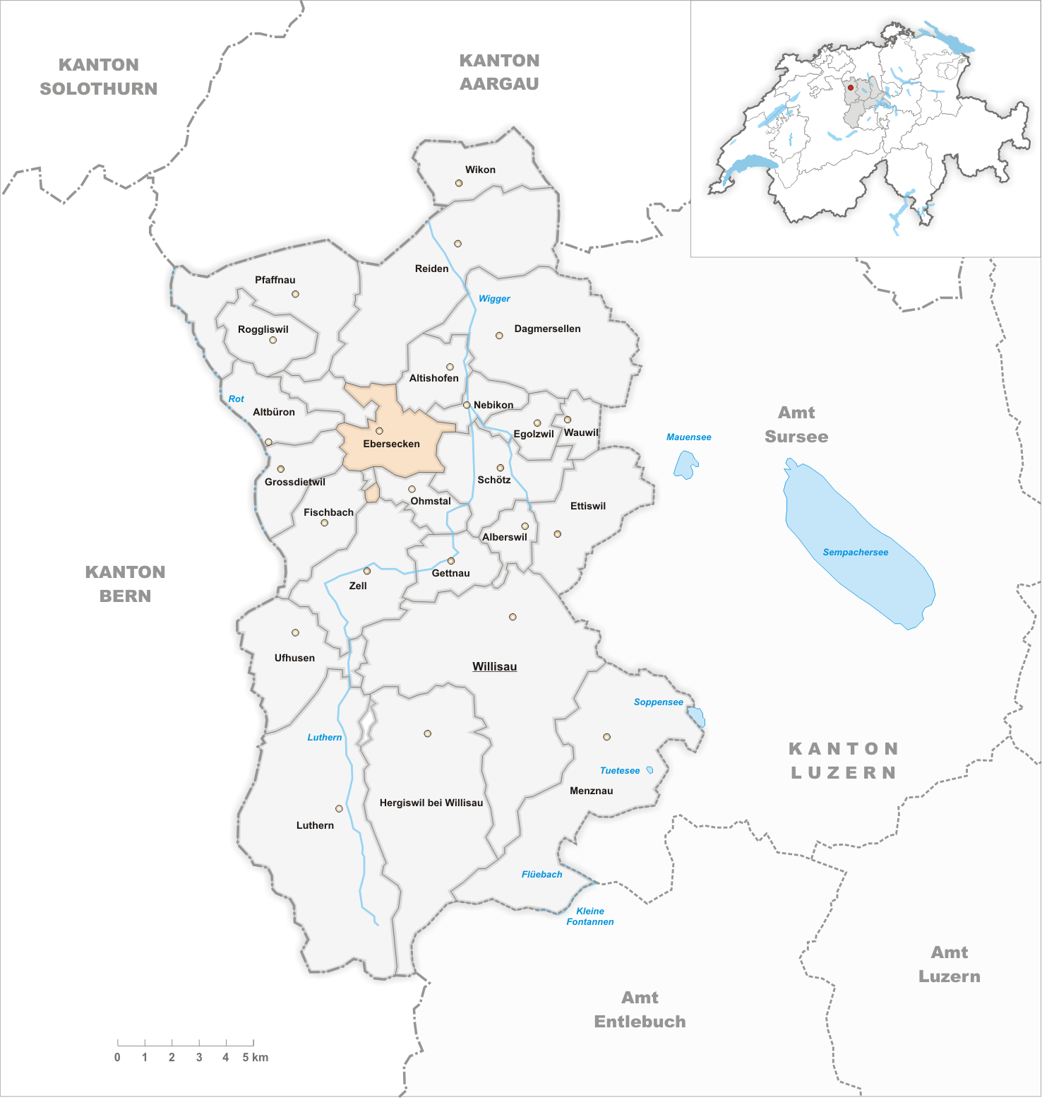 Municipality Ebersecken